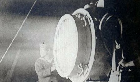 A searchlight of The Imperial Japanese Navy(On a ship)